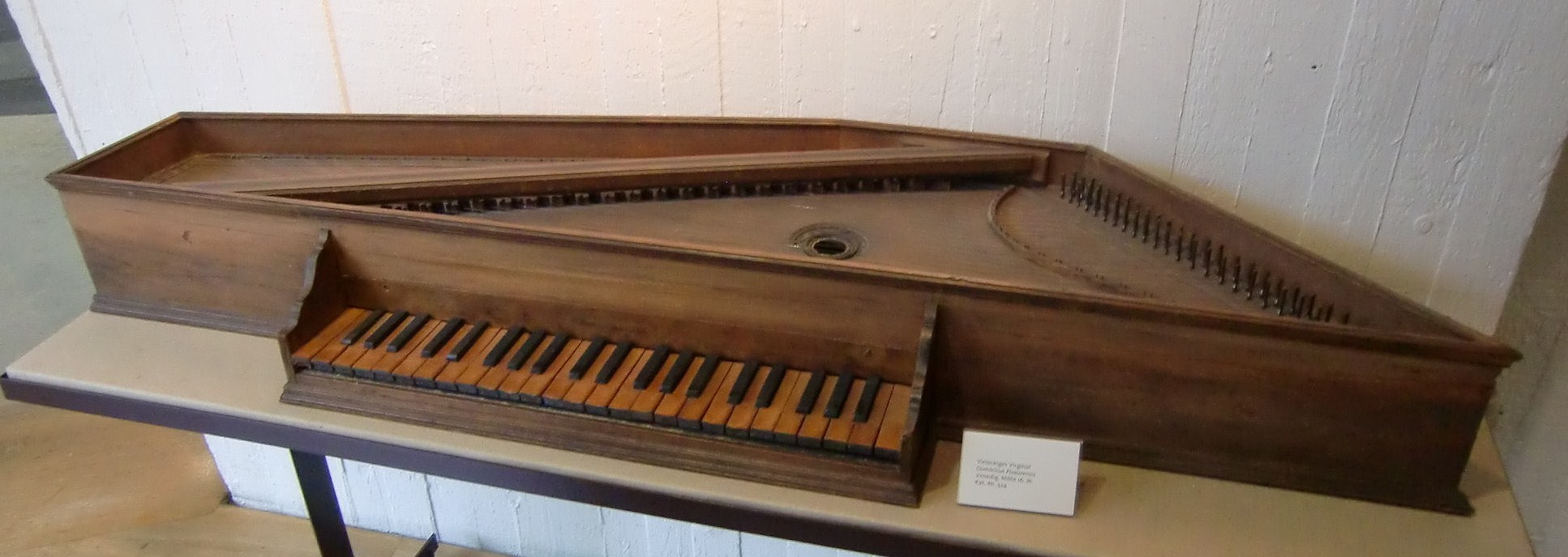 Polygonal virginals, Dominicus Pisaurensis, Venice, ca. 1550. Museum for Musical Instruments, Berlin. Cat. no. 324.